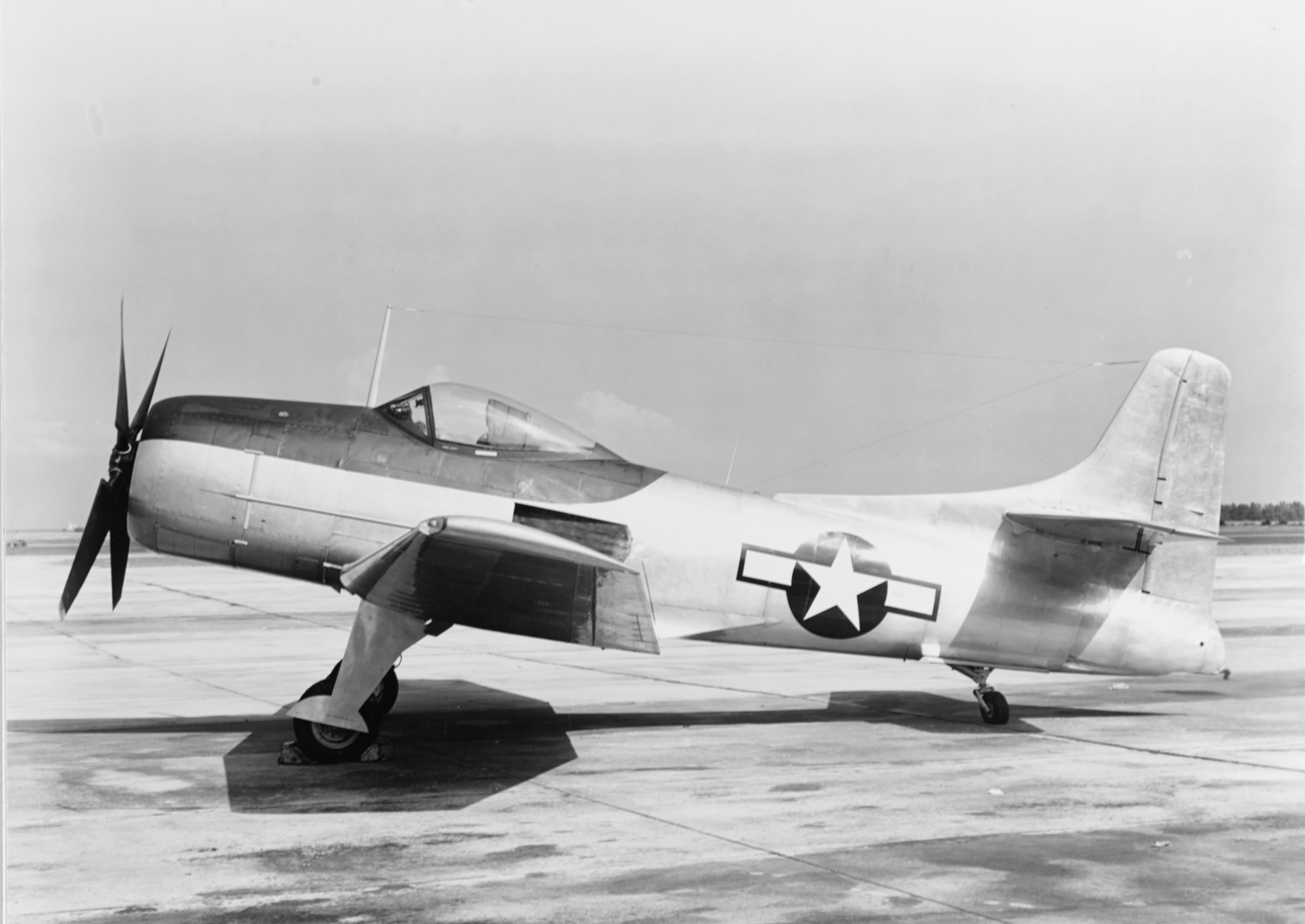 The first production Kaiser-Fleetwings XBTK-1 (BuNo 44313) at the Naval Aviation Training Command (NATC), Naval Air Station (NAS) Pautuxent River, Maryland (USA), on 8 August 1945.